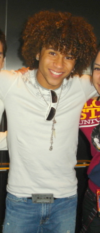 Actor And Signer Corbin Bleu with fan in December 6, 2006